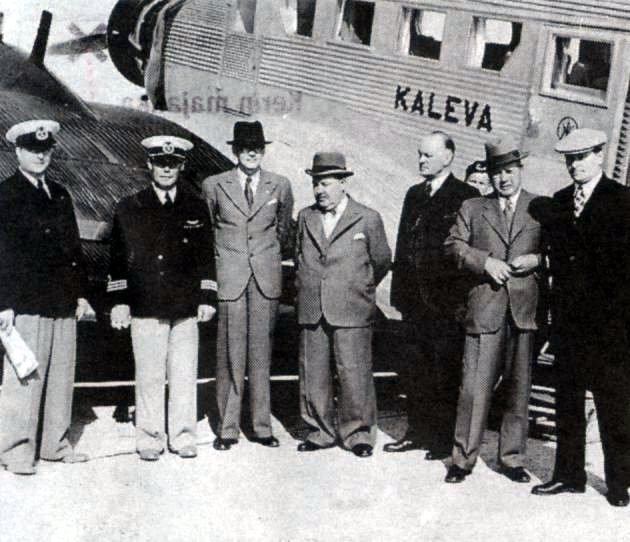 Aero O/Y Junkers Ju-52-3/mge (OH-ALL, Kaleva). The plane was shot down by Soviet bombers on 1940-06-14.